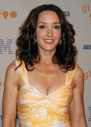 Jennifer Beals of The L Word at the 2008 GLAAD Awards